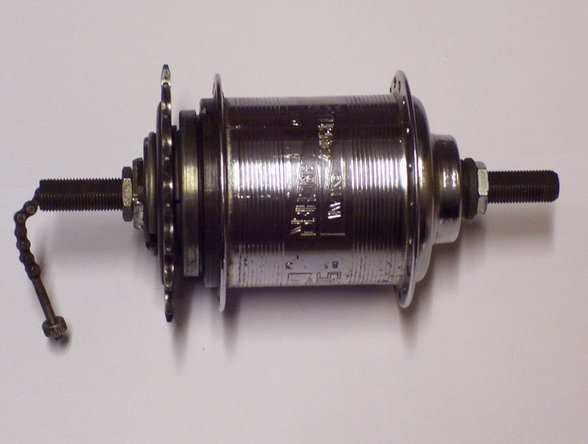 Sturmey&Archer bicycle 3 speed hub